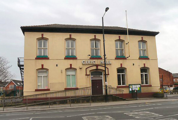 The Civic Hall at Hazel Grove, in Greater Manchester, England.